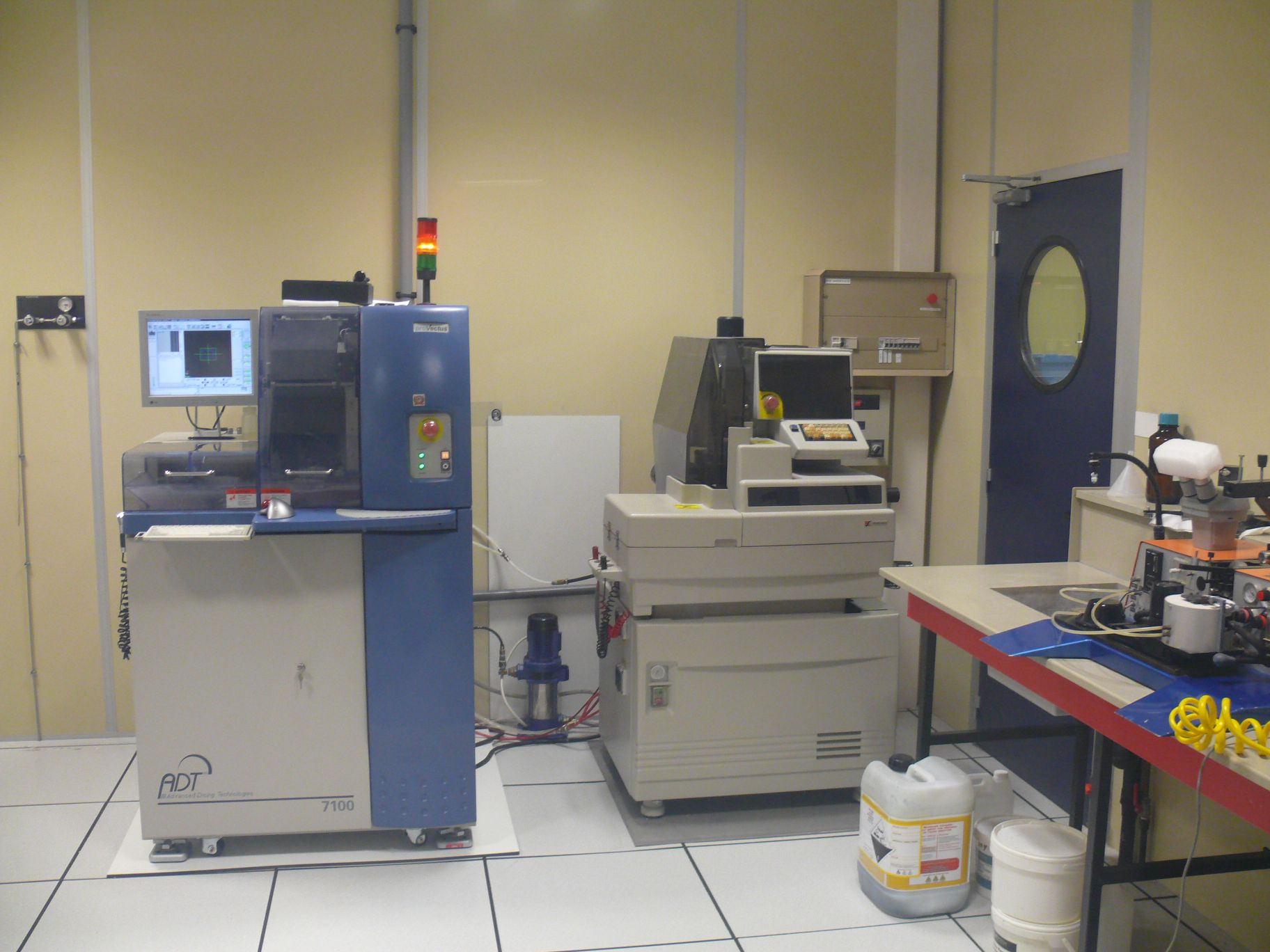 A clean room at IEMN, in Villeneuve-d'Ascq (Nord, France).